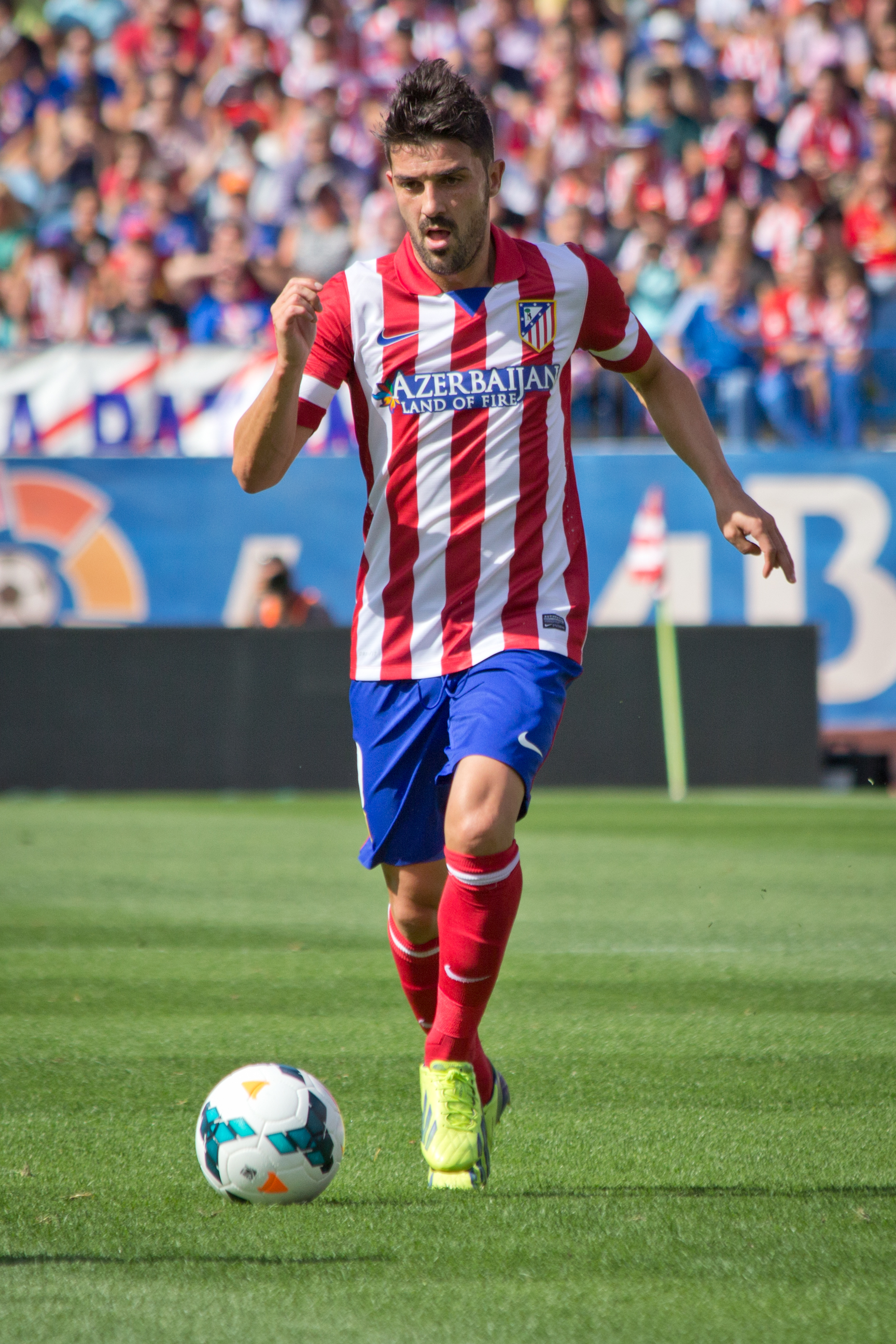 David Villa, footballer of Atlético de Madrid.